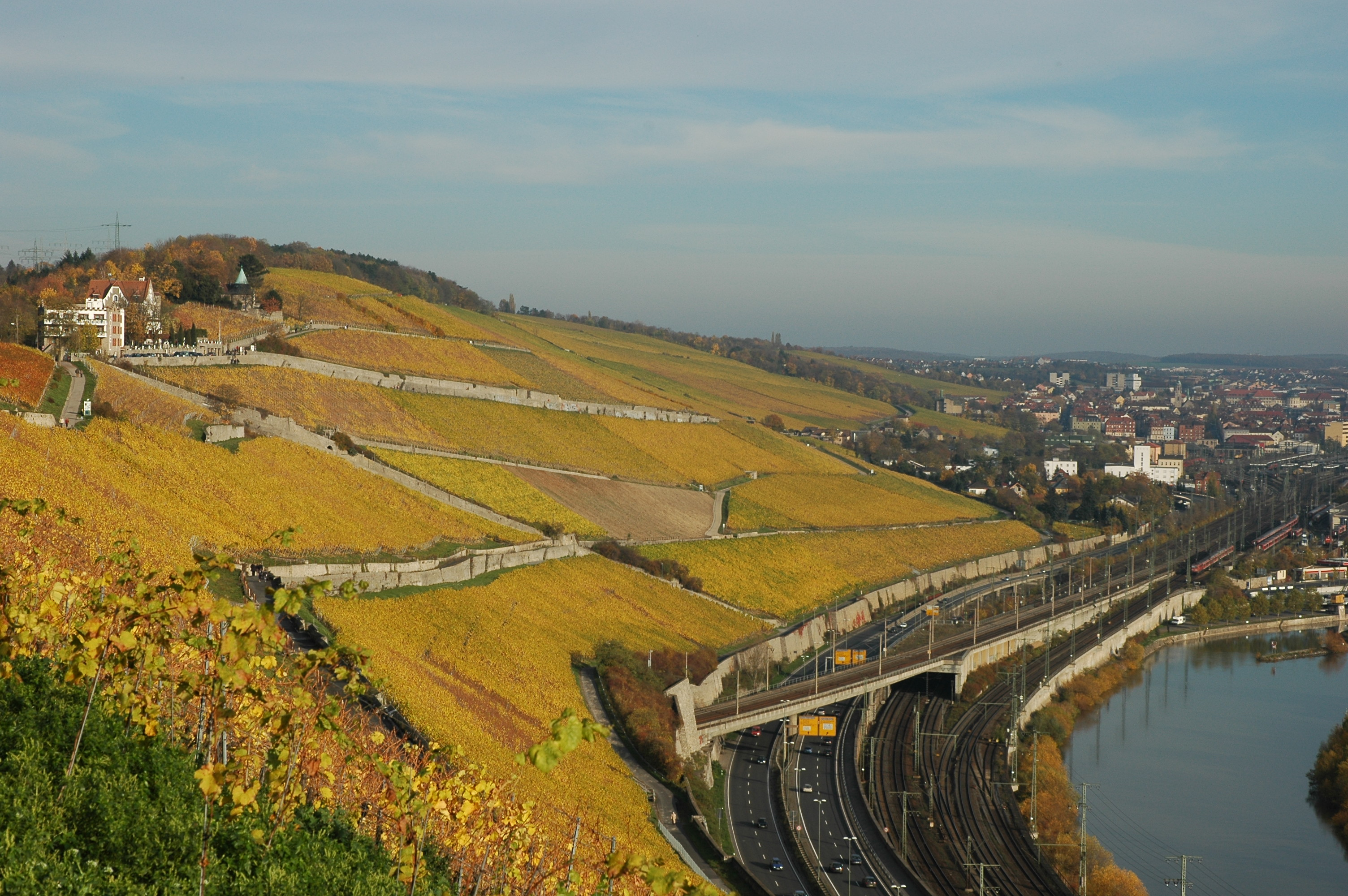 Vineyard “Würzburger Stein” just north of the city of Würzburg